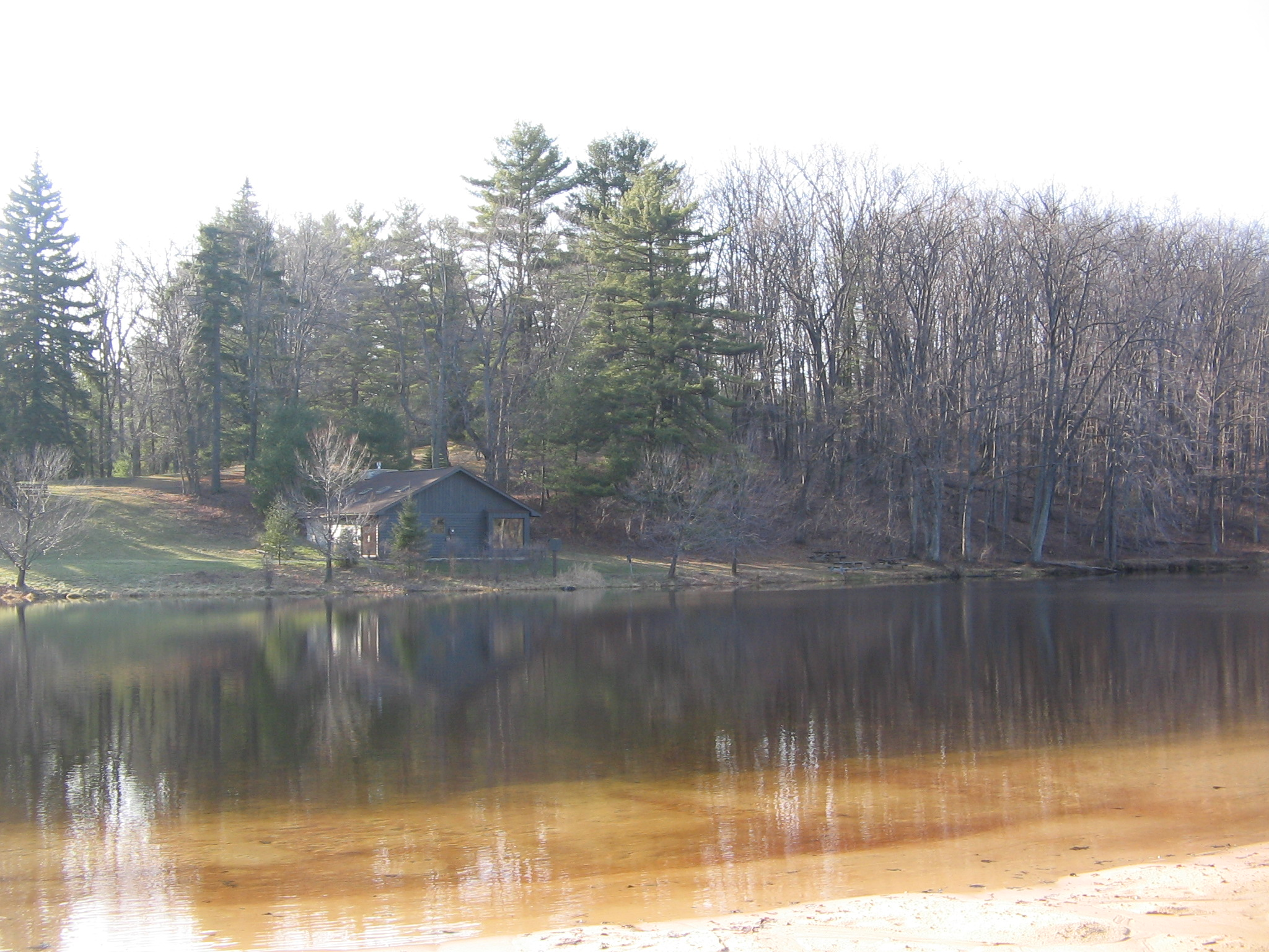 Former CCC Museum, now Environmental Education Center and lake, from beach at Black Moshannon State Park, near Phillipsburg, Rush Township, Centre County, Pennsylvania, USA. Note "tea color" of lake from bog tannins, hence "Black" Moshannon Creek.